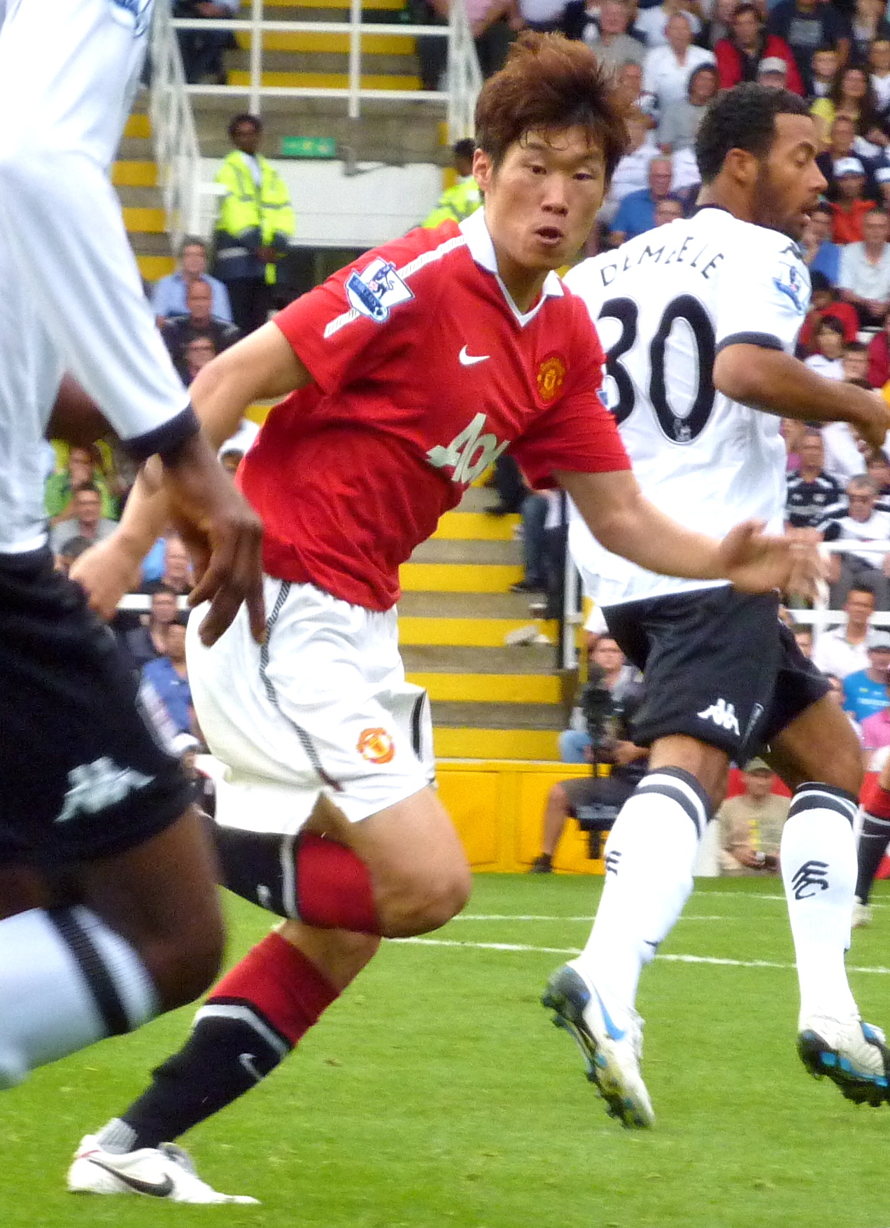 Park Ji-Sung of Manchester United against Fulham.